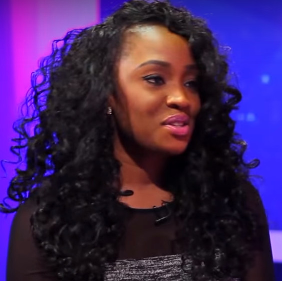 Uru Eke is a Nigerian actress. She is known for Last Flight to Abuja, Weekend Getaway and Being Mrs Elliot. Here in 2014 on The Juice on NdaniTV